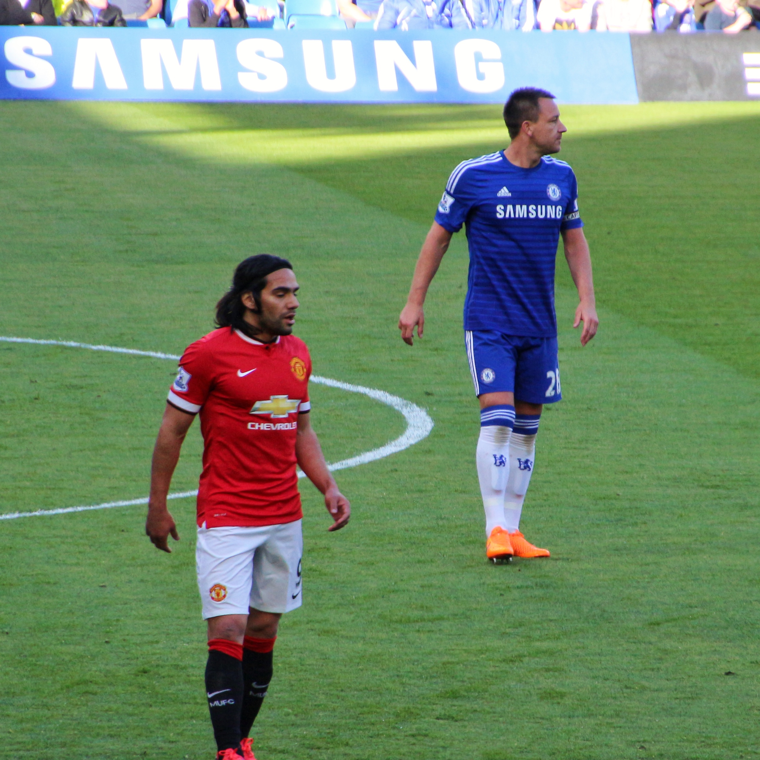 Chelsea 1 Man Utd 0